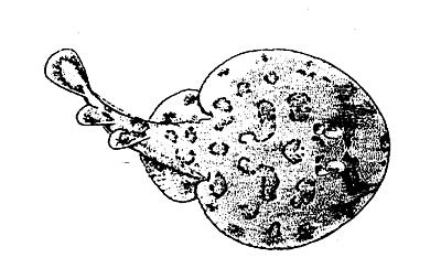 Lesser electric ray (Narcine brasiliensis ?) Identification problem: Lesser electric ray = ' for FishBase User:Haplochromis added the comment Narcine brasiliensis ?